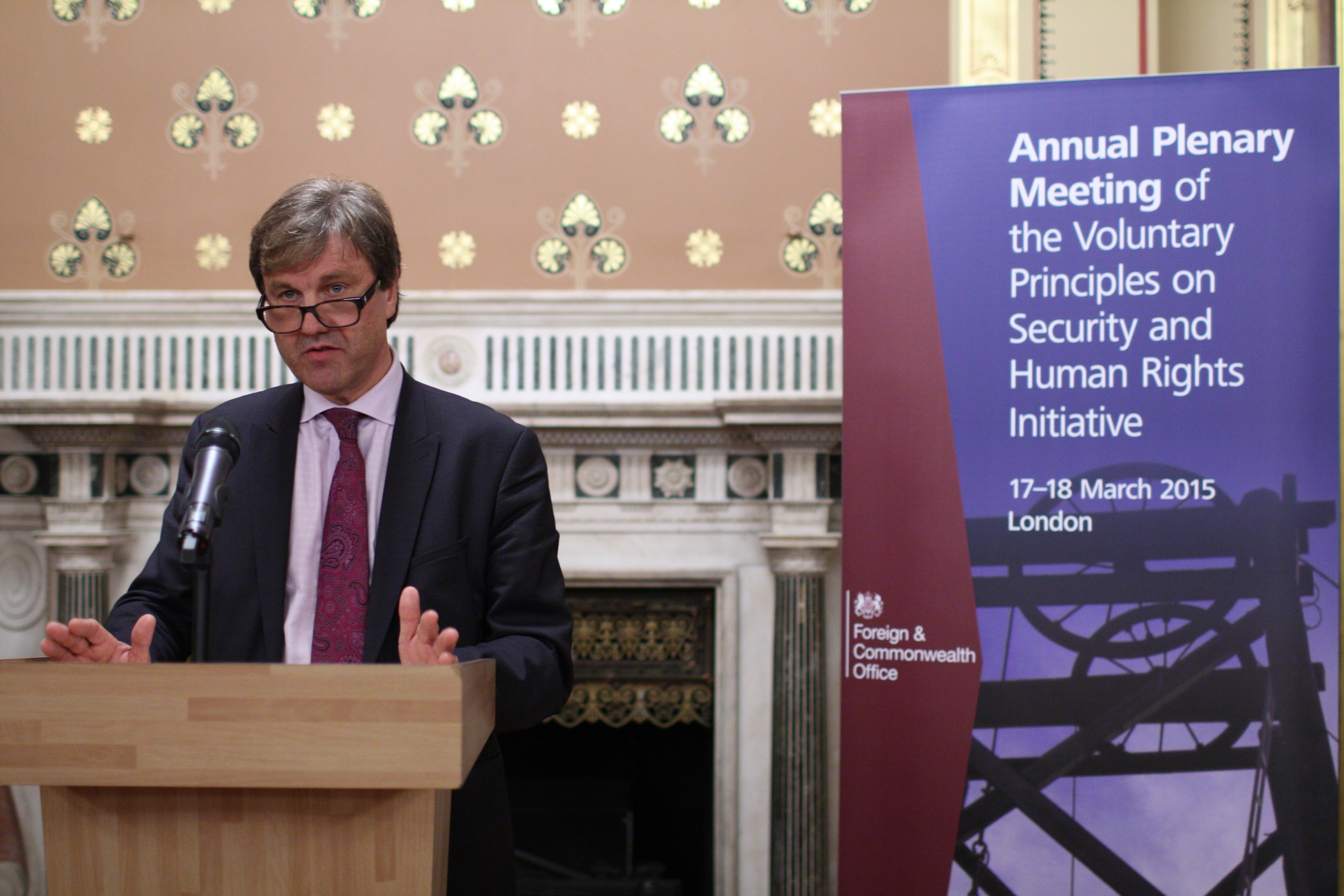 Peter Mather, BP Vice President for Europe at the Annual Plenary Meeting of the Voluntary Principles on Security and Human Rights Initiative, 17 March 2015, London.